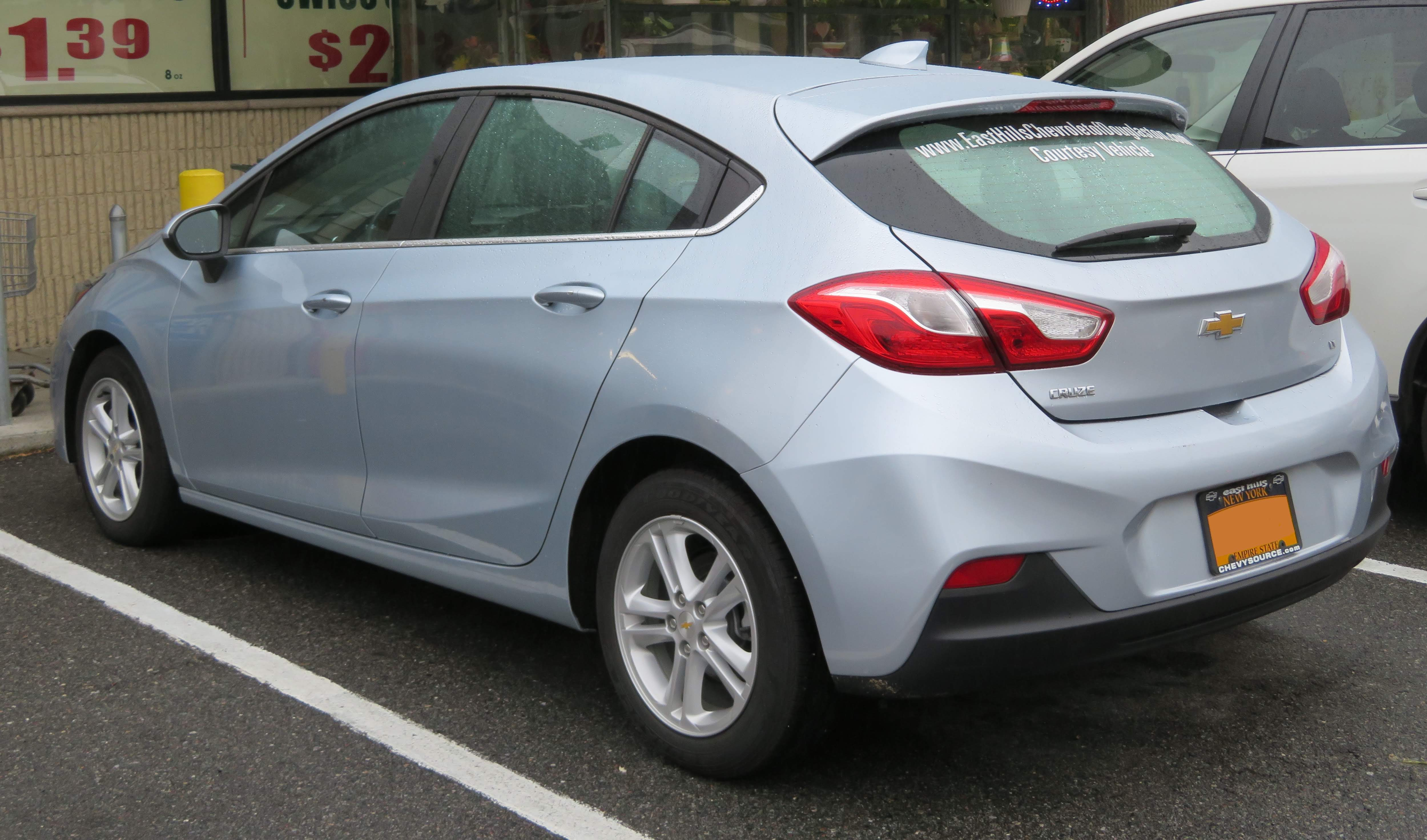 Photographed in Queens, New York